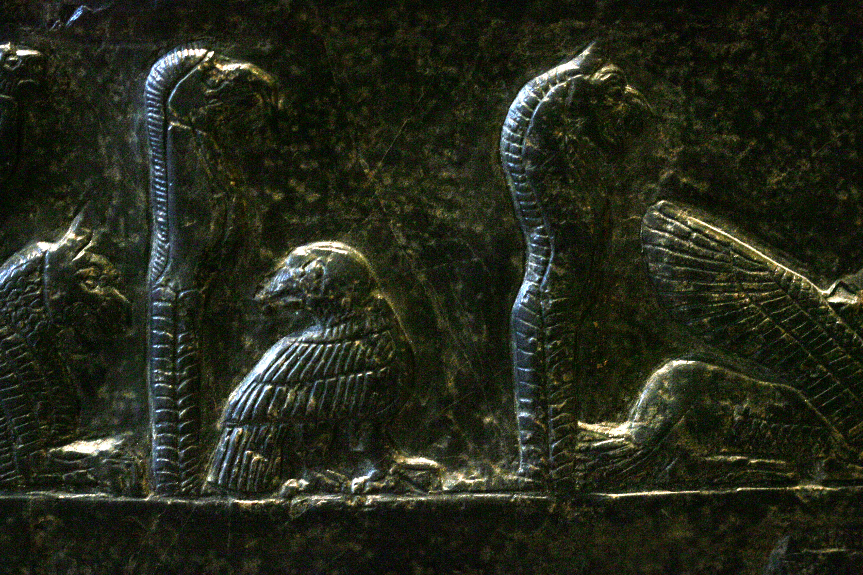 Kudurru of king Meli-Shipak II (1186–1172 BC): land grant to Marduk-apal-iddina I. Kassite period, taken to Susa in the 12th century BC as spoils of war. Datefrom 1186 until 1172 BCMediumgrey-black limestoneCurrent location (Inventory)Louvre Museum Native nameMusée du LouvreLocationParisCoordinates48° 51′ 37″ N, 2° 20′ 15″ E Established1793Website control : Q19675 VIAF: 257711507 ISNI: 0000 0001 2260 177X ULAN: 500125189 LCCN: n80020283 NLA: 35912436 WorldCat Richelieu, Rez-de-chaussée, Mésopotamie, IIe et Ier millénaires avant J.-C., Salle 3Accession numberSb 22Credit lineFound by Jacques de MorganReferencesLouvre.frSource/PhotographerRama